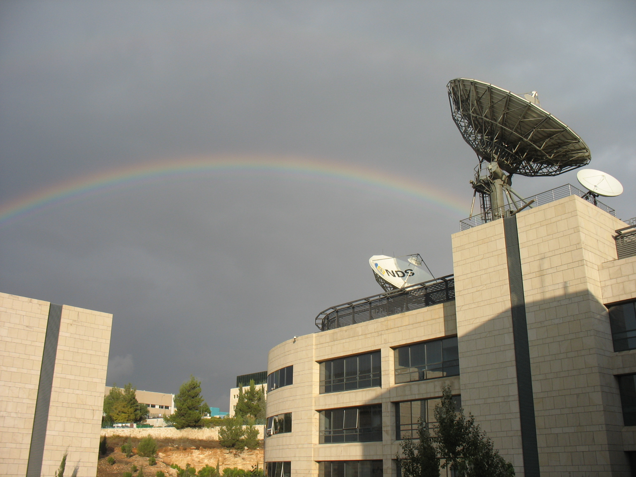 NDS premises in Jerusalem